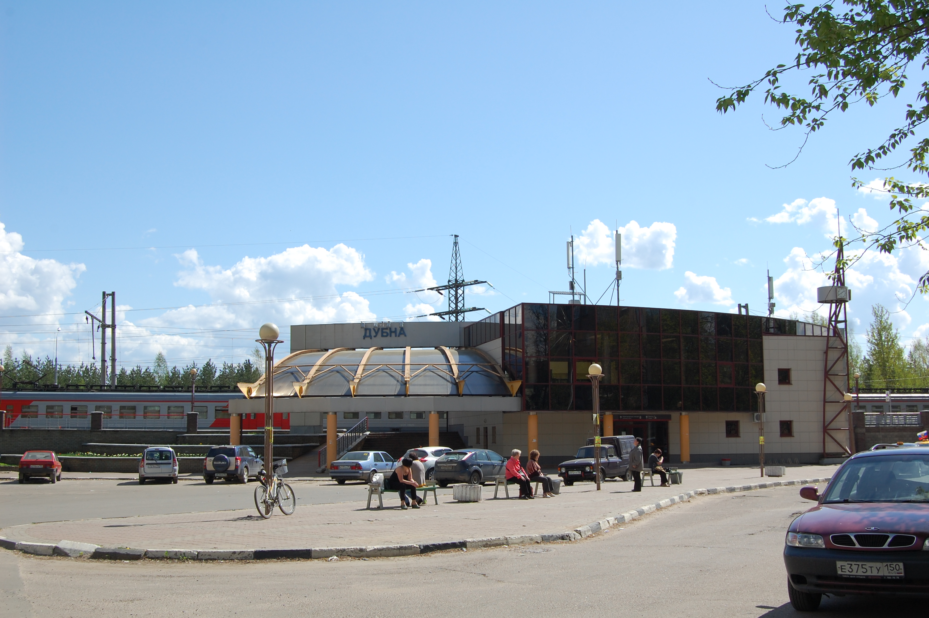 Railway station Dubna, Moscow oblast